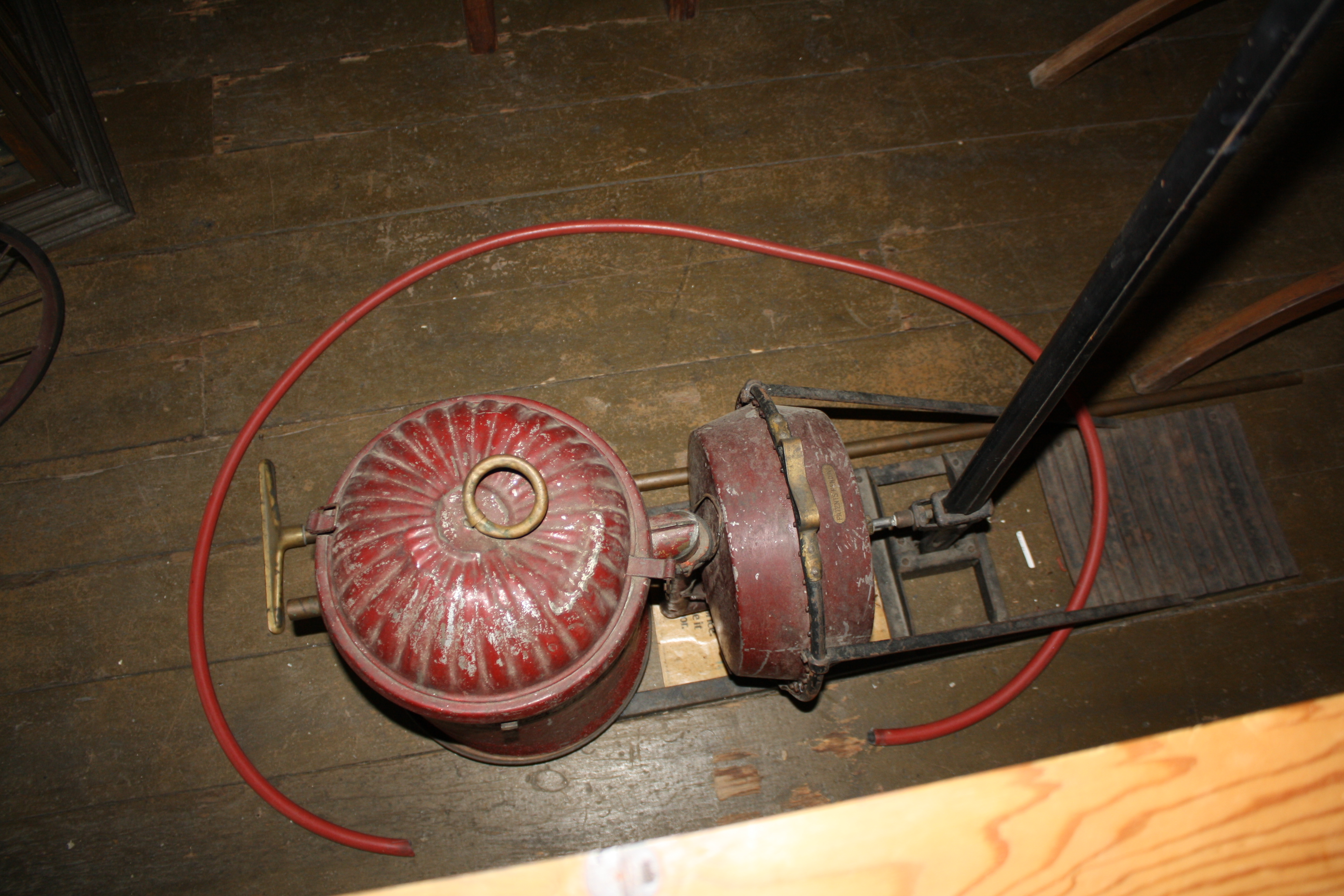 A historic Vacuum cleaner on display at the IXL museum.